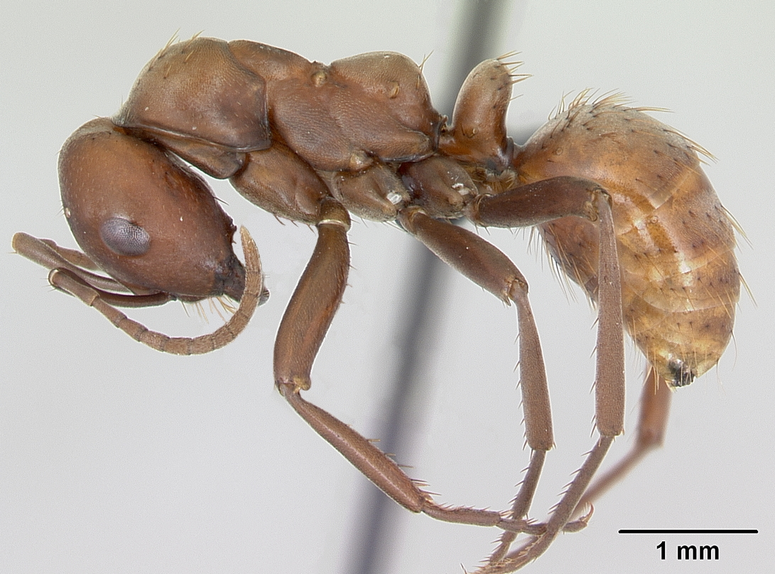 Profile view of ant Polyergus rufescens specimen casent0173859.